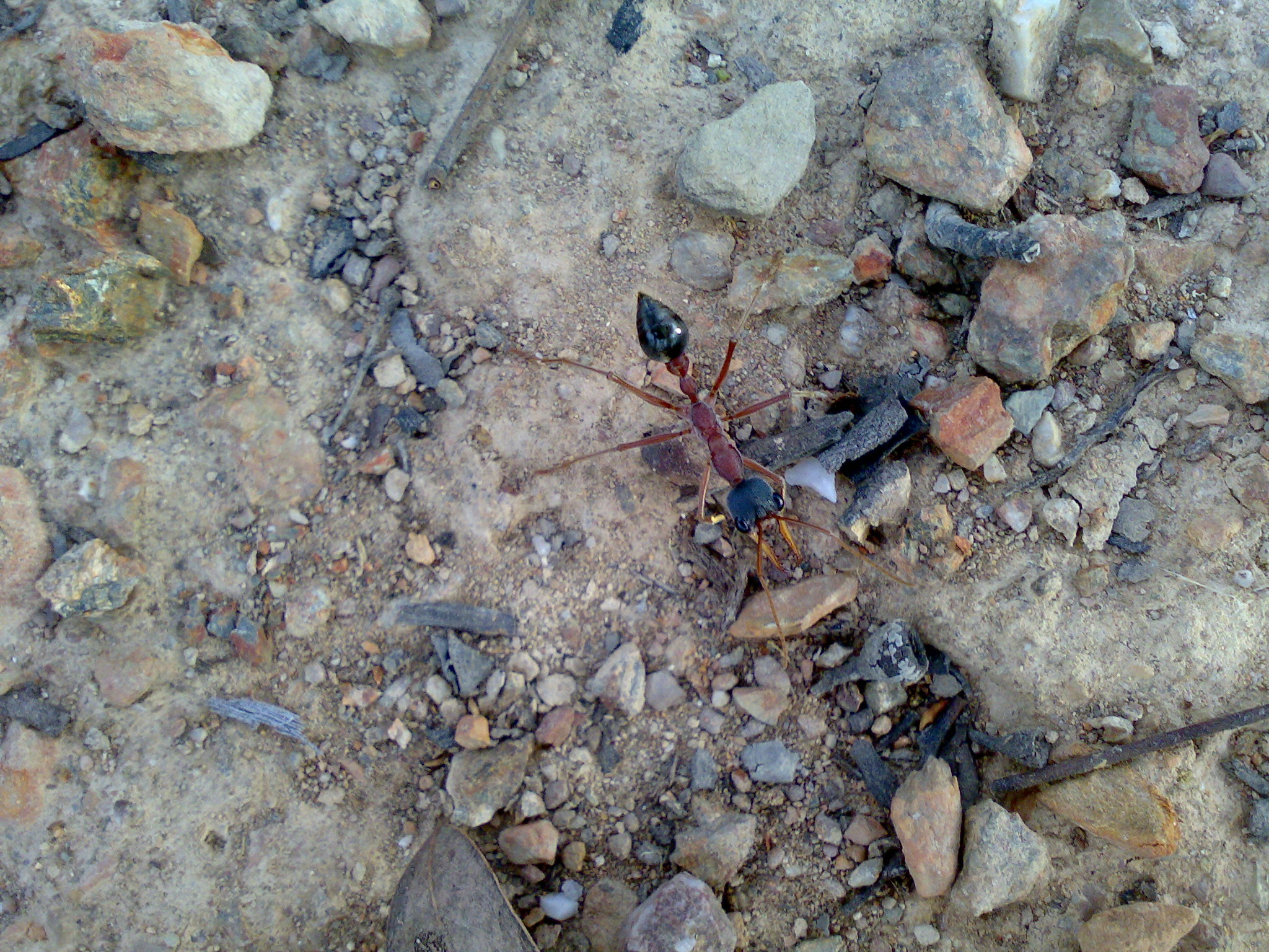 A specimen of the bull ant species Myrmecia Nigriceps patrolling for food in south east Australia.